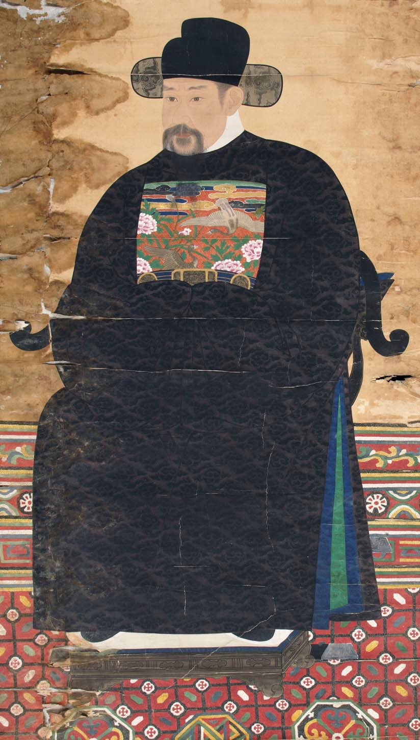 Portrait of Baekho Yun Hyu, Tattoo of the late Joseon period and philosopher